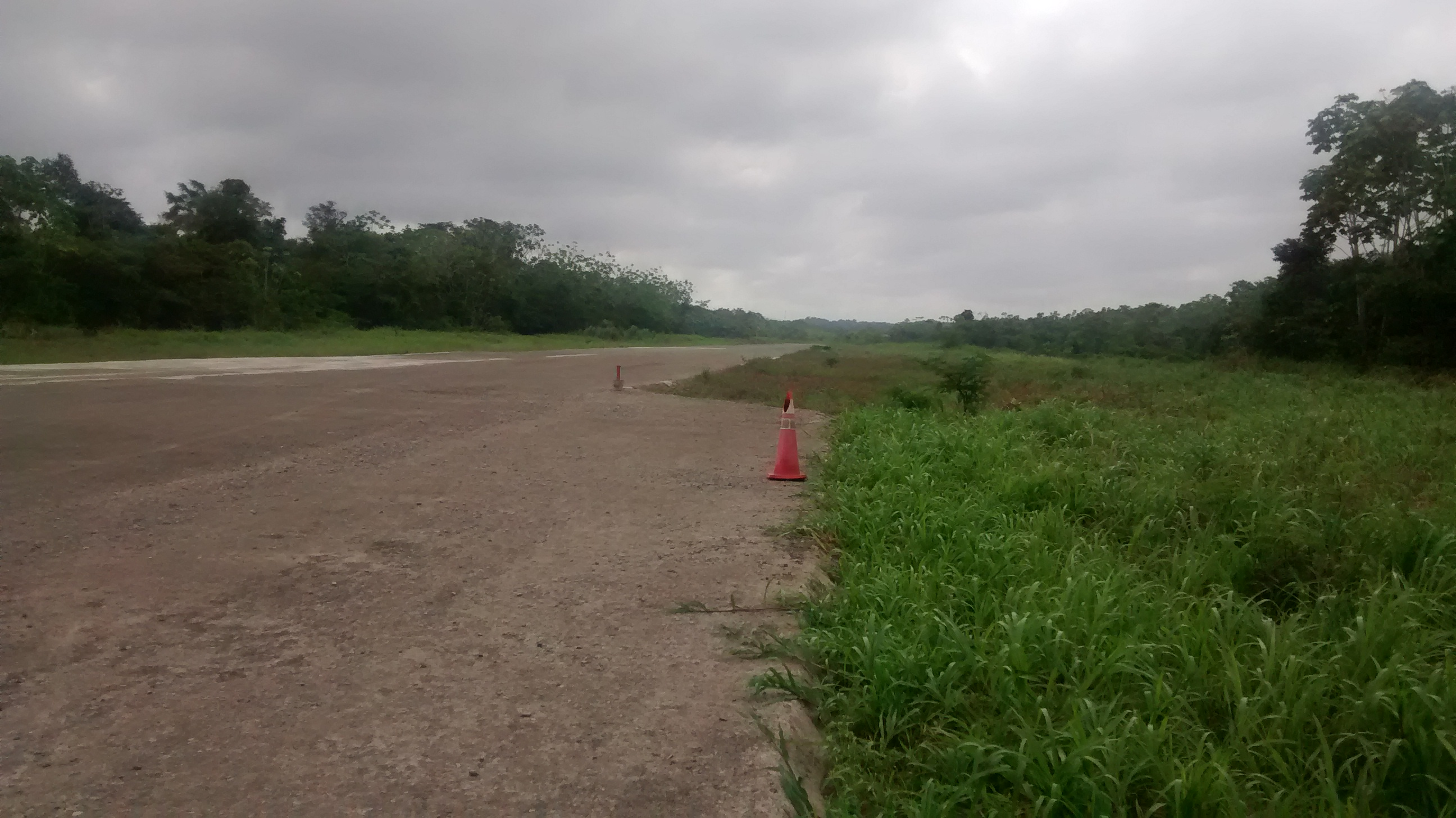 The new airstrip outside of town.